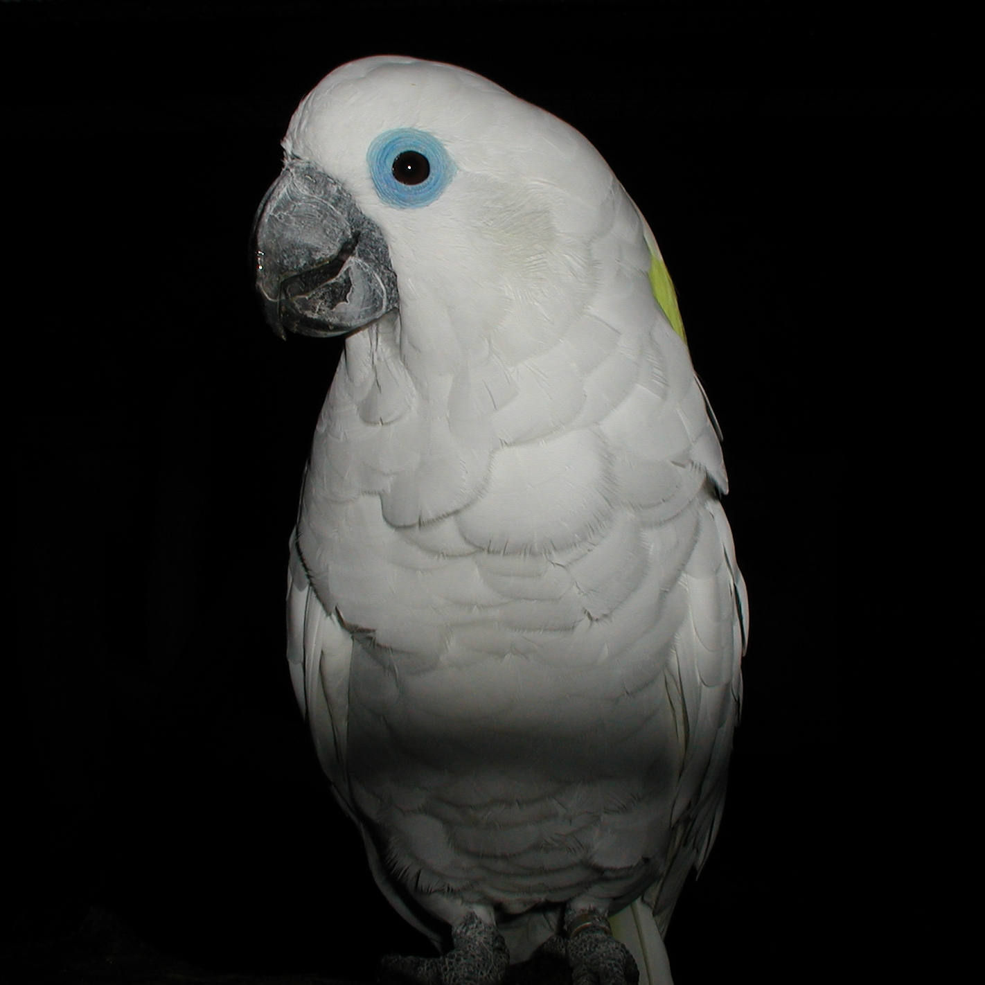 Blue-eyed Cockatoo at Vogelpark Walsrode, Germany.